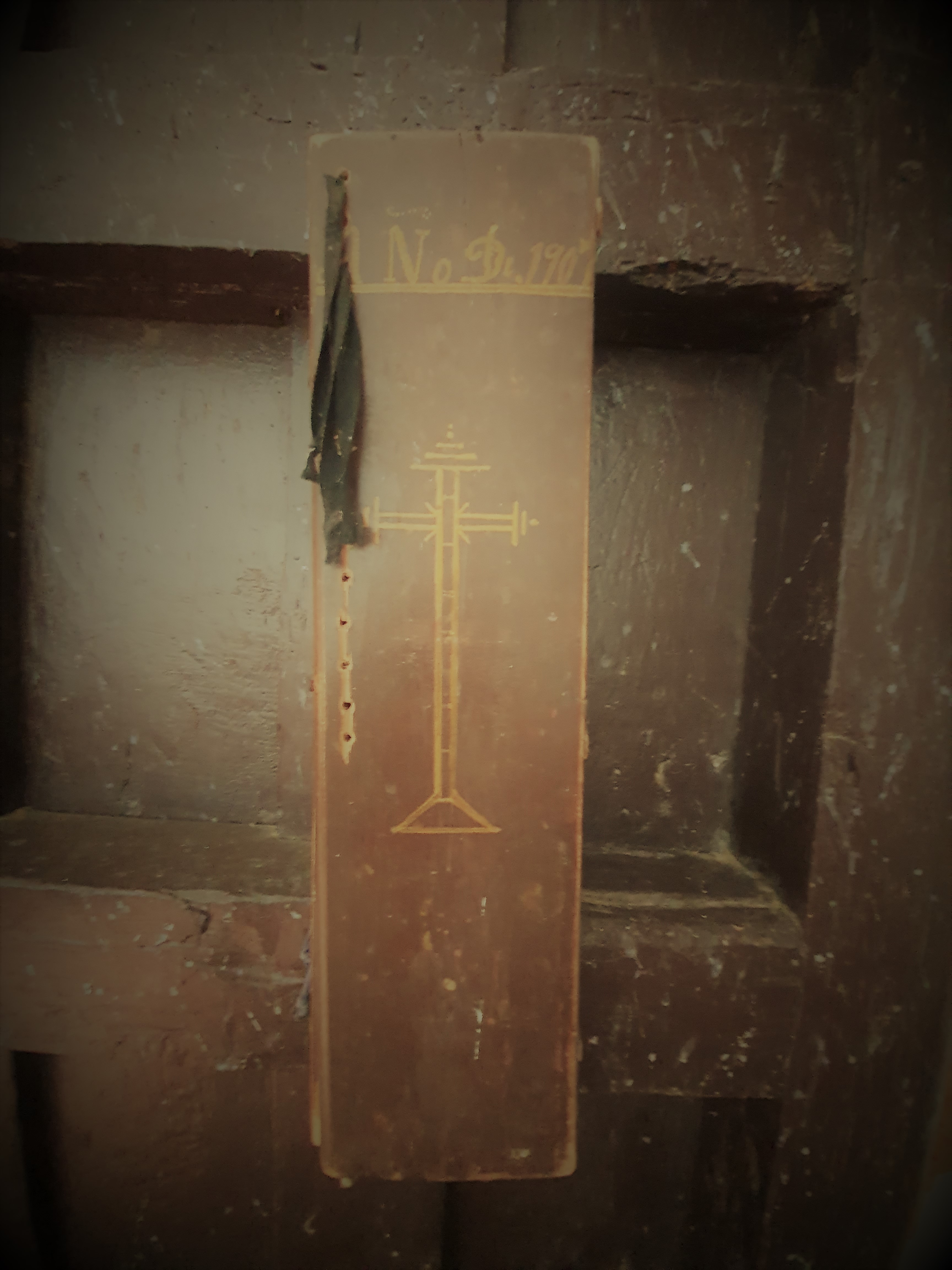 Book of Brotherhoods of the Holy Vera Cruz of Villamelendro. These are two tables in the form of a book with the names of the brothers active at that time. Although the brotherhood was founded in 1826, the board dates from 1907 and includes brothers until the middle of the 20th century.